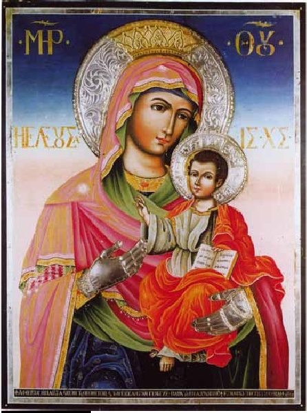 Eleousa Icon by Nikolaos Adrianoupolitis in Presentation of Jesus at the Temple Church, Yenisea, Greece, 1840